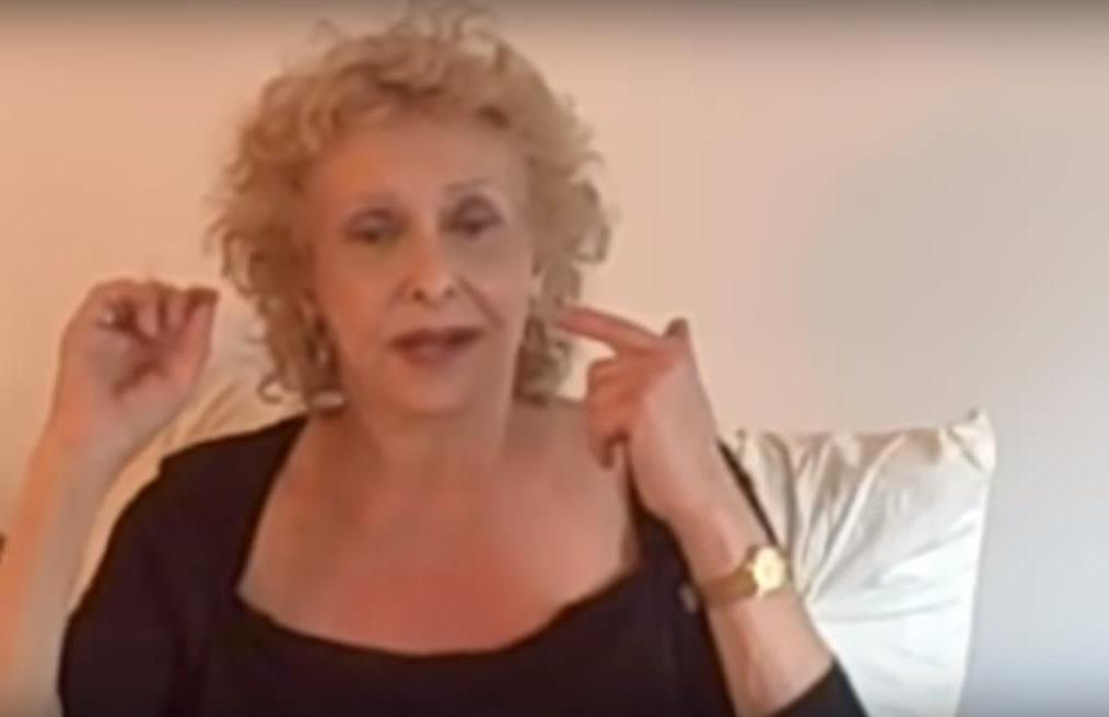 Burning Down the House: Building a Feminist Art Collection is an exhibition of nearly fifty works focusing on recent acquisitions and major loans, including works by artists such as Kiki Smith, Tracey Emin, Tracey Moffatt, and Lorna Simpson. Burning Down the House, October 31, 2008 - April 5, 2009. Brooklyn Museum